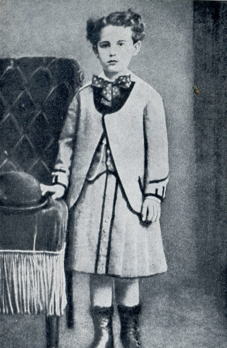 Guy de Maupassant at the age of seven years